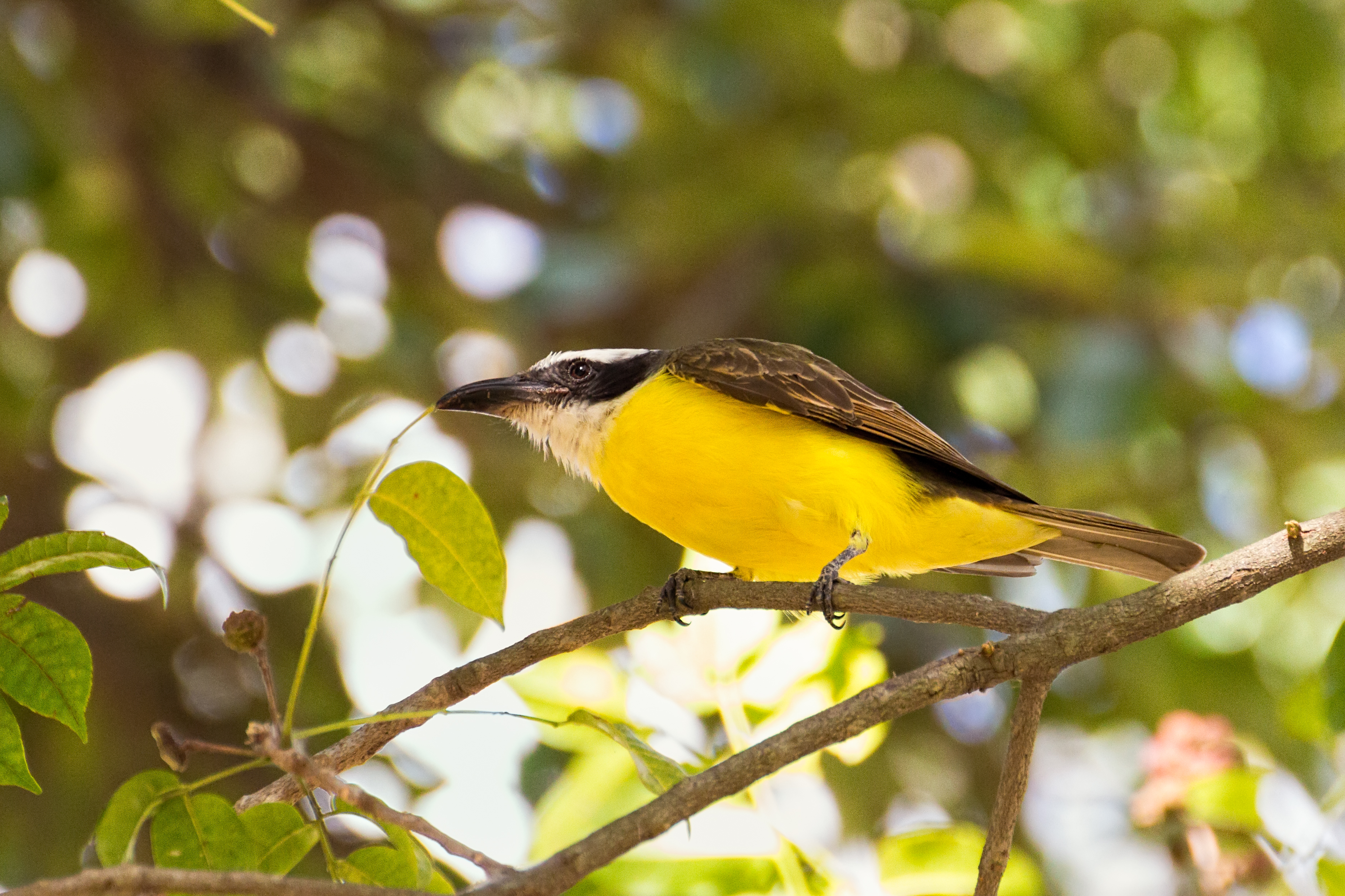 Boat-billed Flycatcher | Atrapamoscas Picón (Megarynchus pitangua pitangua)